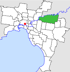 Location of the City of Doncaster & Templestowe within Melbourne.